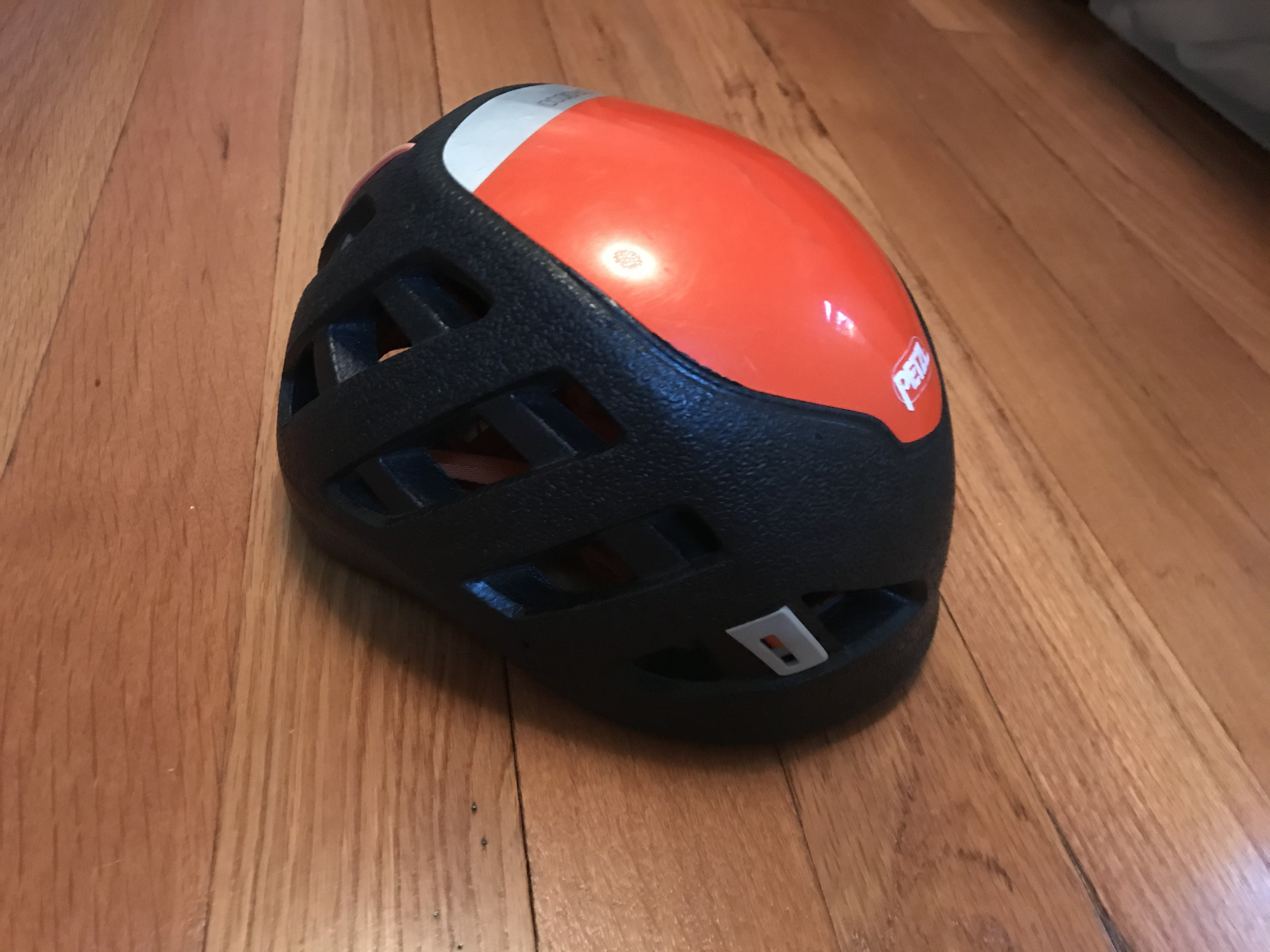 Petzl